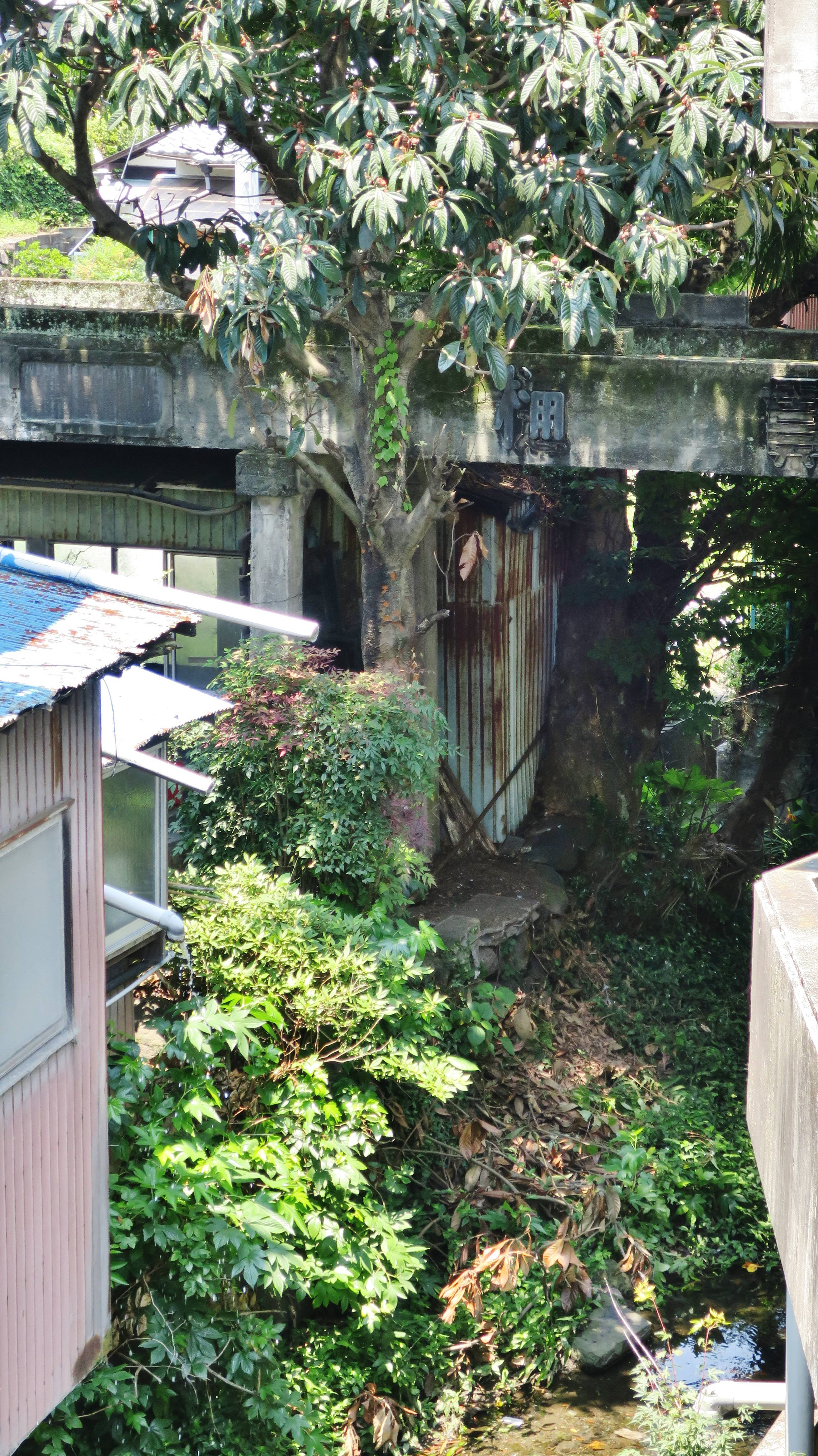 Sengandoi.